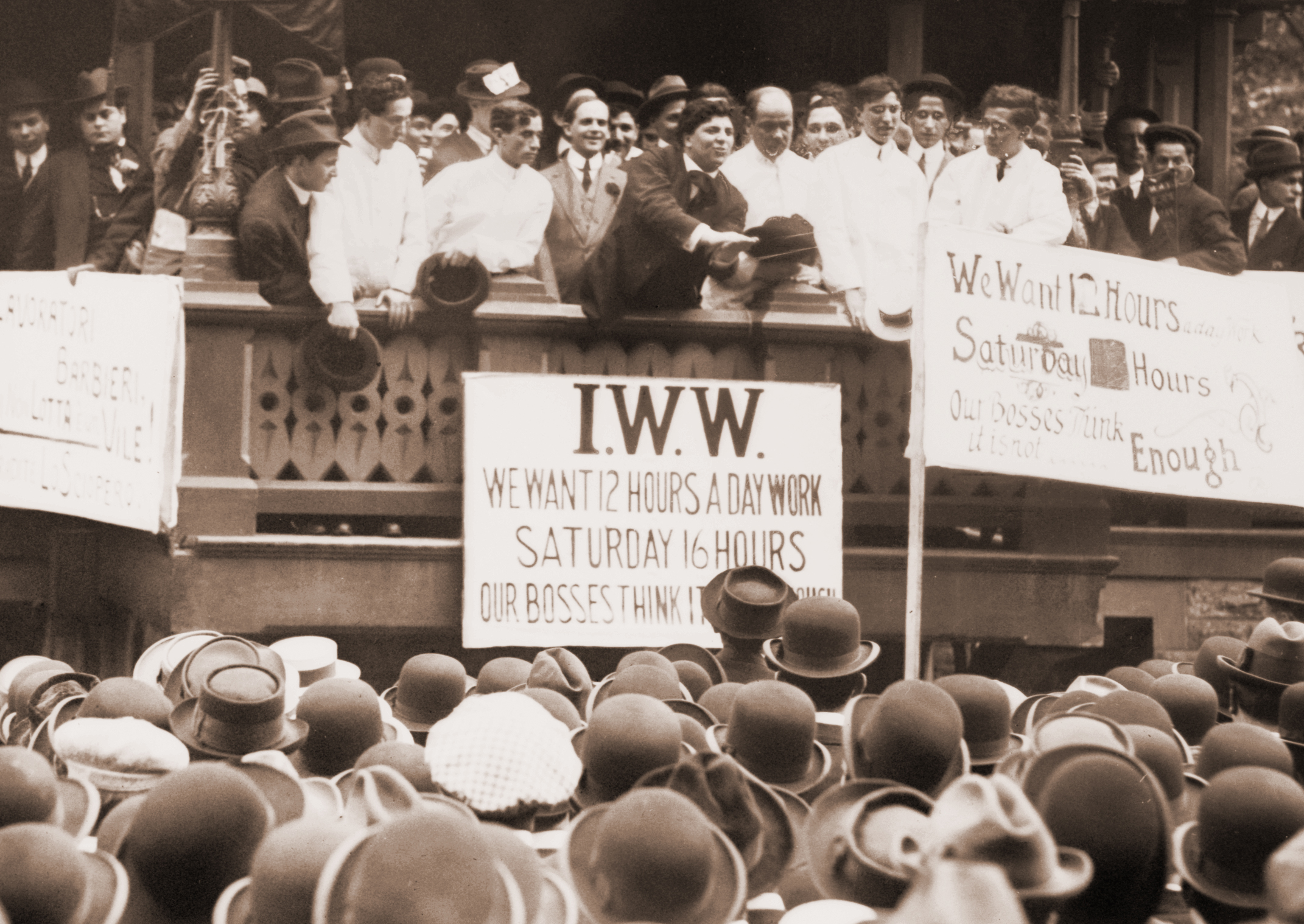 Labor leader Joseph James Ettor (1886-1948) speaking during the Brooklyn barbers' strike of 1913, Union Square, New York City.